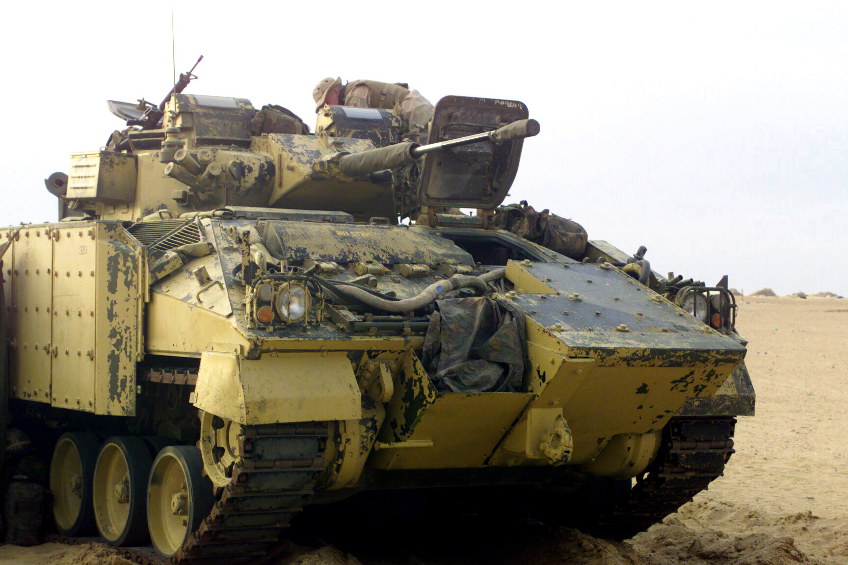 US Marines check out a British FV510 Warrior Mechanized Combat Vehicle (MCV) variation as an Armored Combat Vehicle, during its visit to Camp Coyote, Kuwait. The Warrior has a 30mm L21A2 Rarden cannon in the turret and the sides have applique armor.